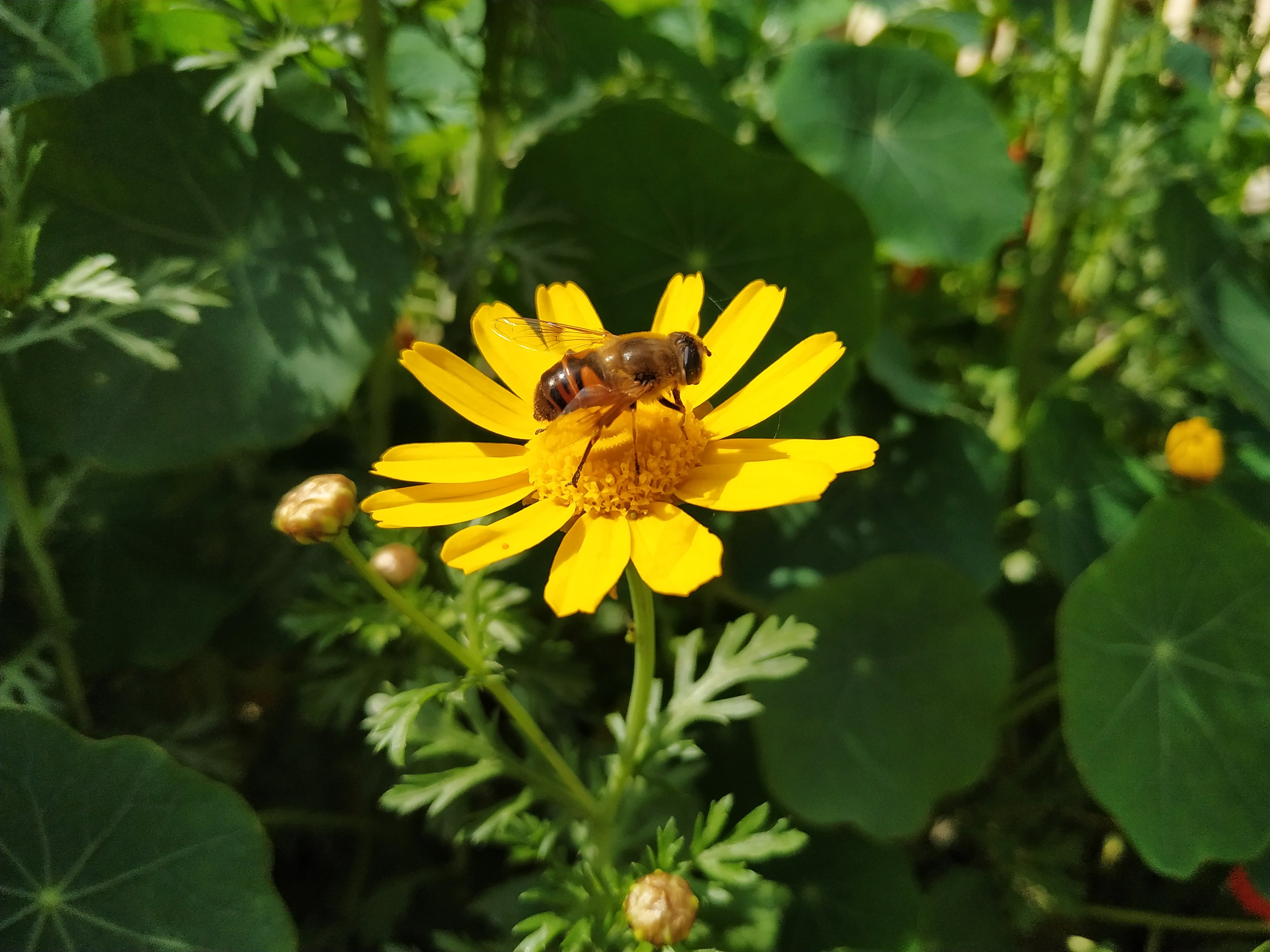 Pollination